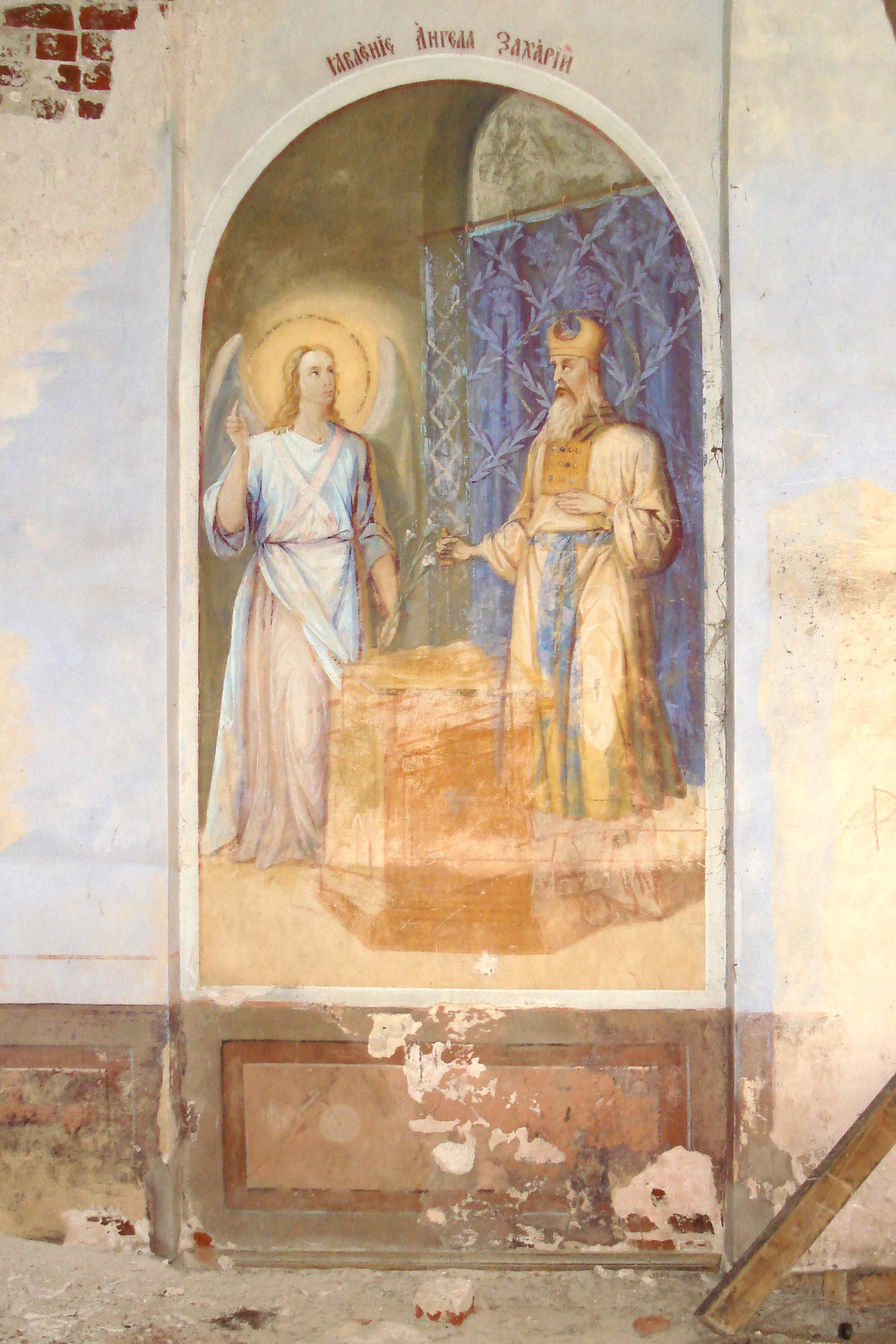 The extant wall painting in the Trinty Church in the village of Krasno. Nizhegorodskaya oblast.